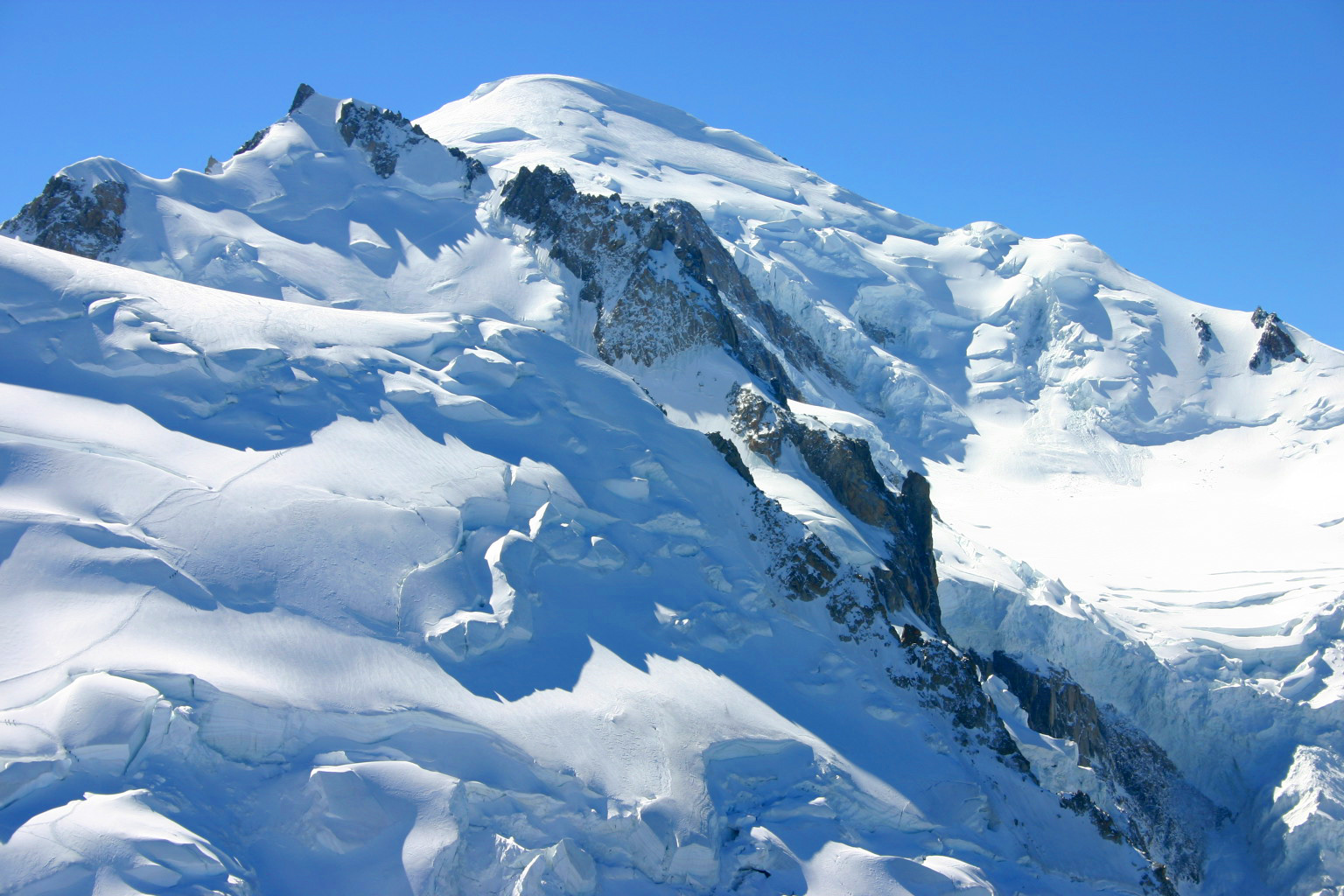 Mont Blanc seen from Gare des Glaciers